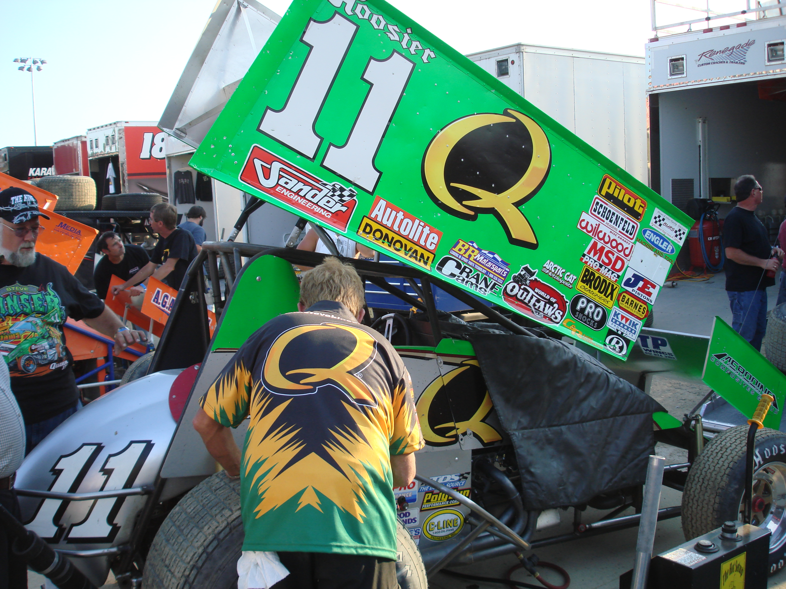 Steve Kinser 2007 World of Outlaws sprint car racing car at the famous Kings Royal sprint car race.